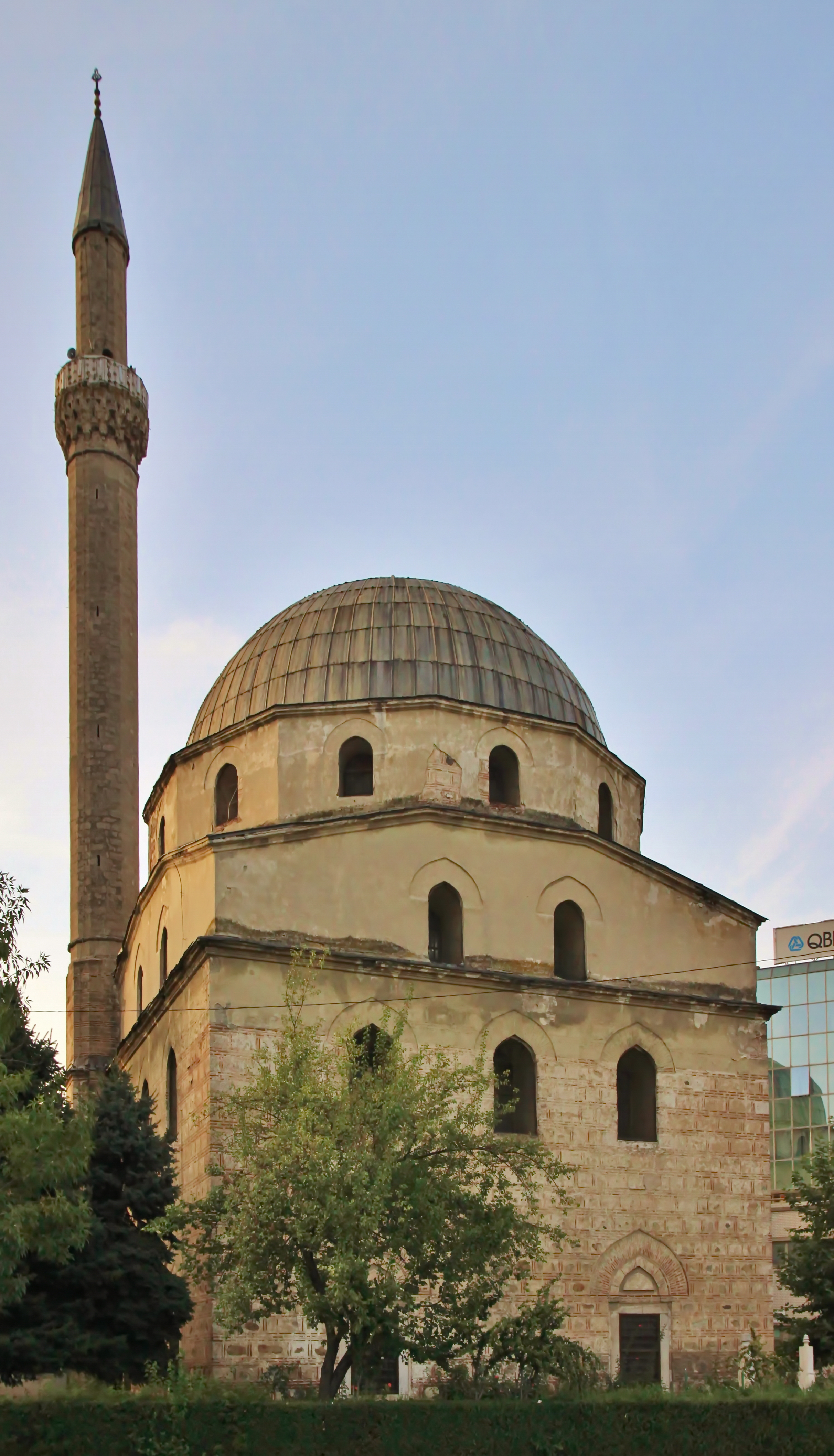 Yeni Mosque. Bitola, Macedonia.